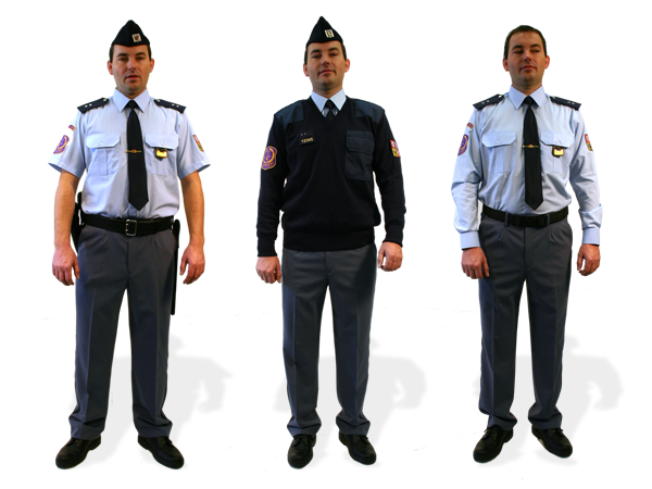 the uniform of the prison service Czech republic